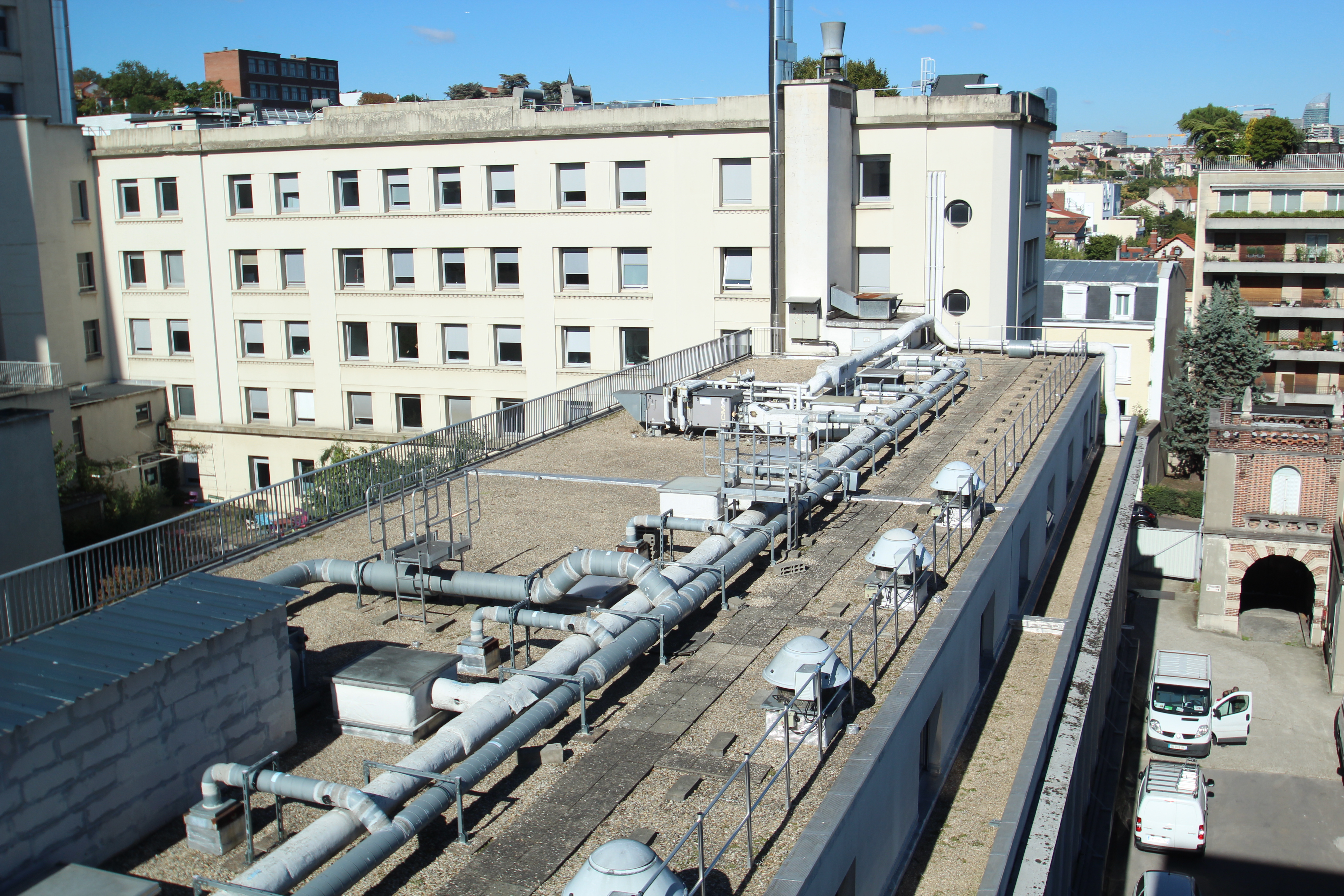 View from the Foch hospital in Suresnes, France. Object location48° 52′ 15.06″ N, 2° 13′ 20.93″ E